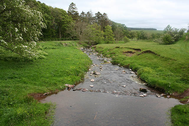 River Alwin near Clennell View downstream towards Alwinton from the footbridge between Clennell Hall and Clennel Street, an ancient Cheviot trackway.